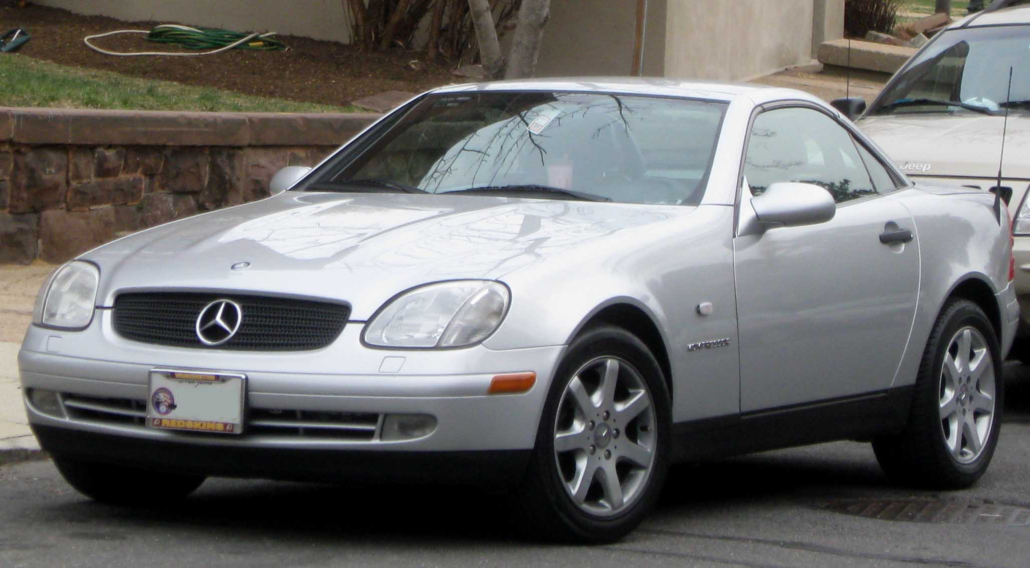 1997-2000 Mercedes-Benz SLK photographed in Washington, D.C., USA.